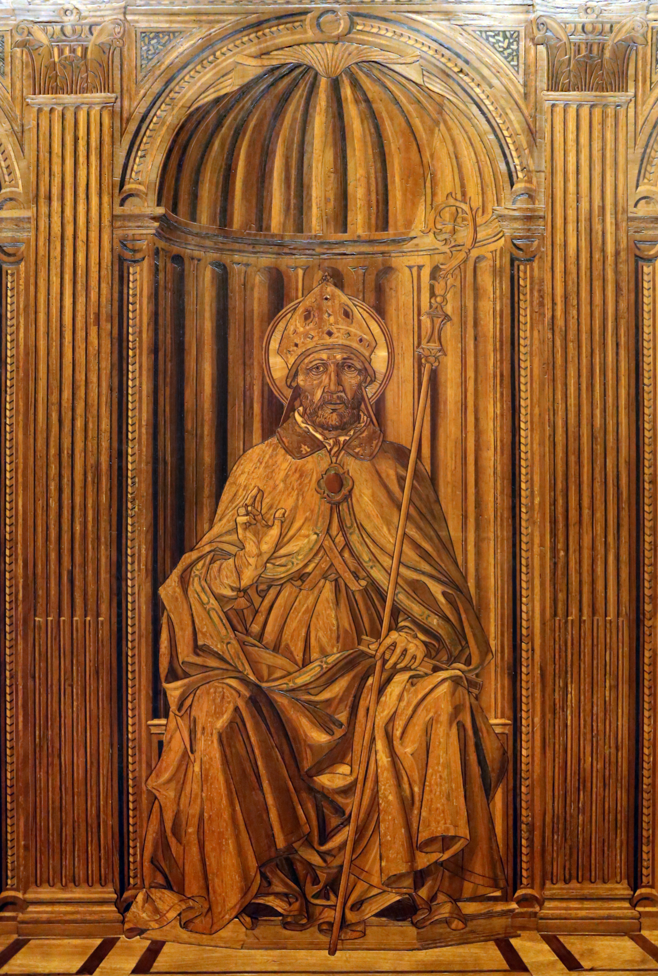 Santa Maria del Fiore (Florence) - Sagrestia delle Messe - Intarsia